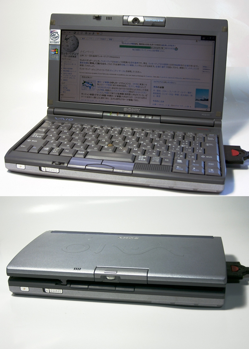 Personal Computer Vaio_C1 bySony Japan